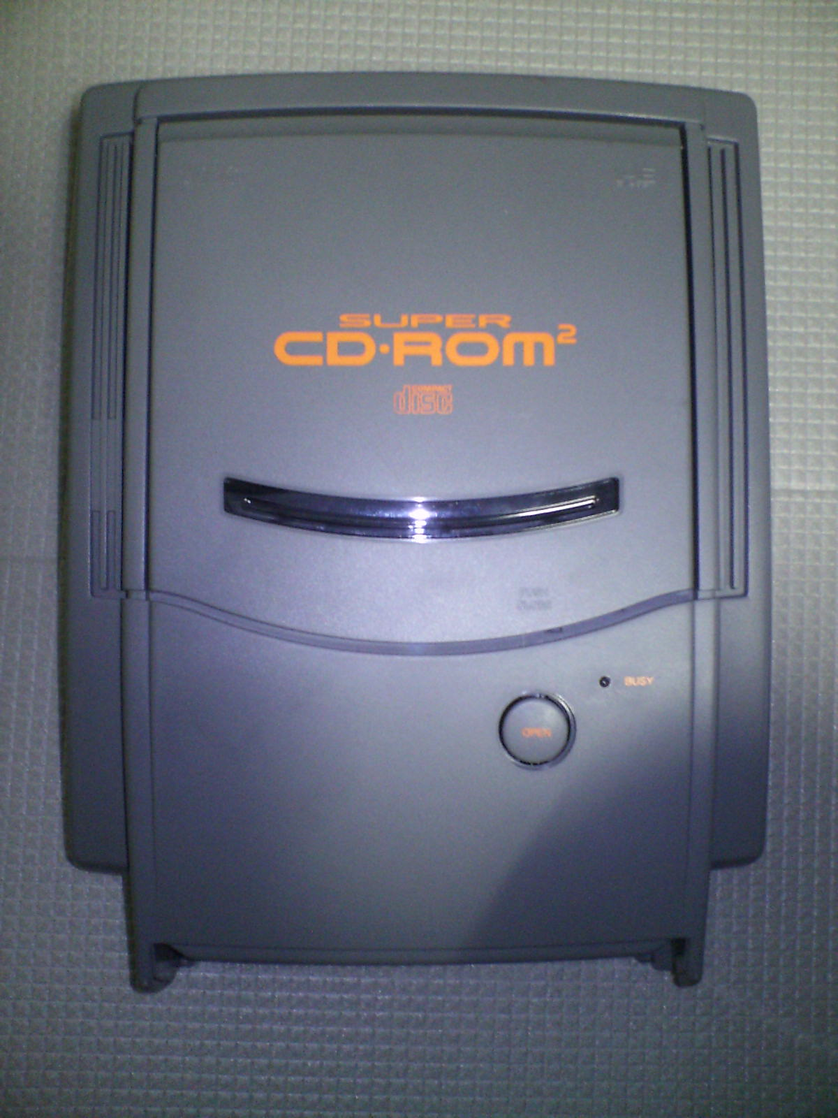 PC Engine Super CD-ROM2